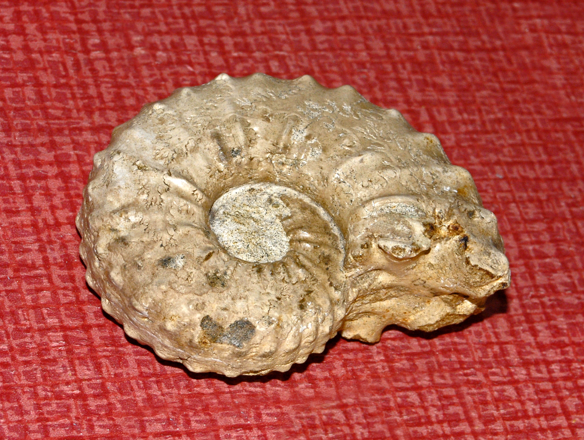 Fossil shell of Acanthoceras rhotomagensis from France, on display at Gallery of Paleontology and Comparative Anatomy in Paris